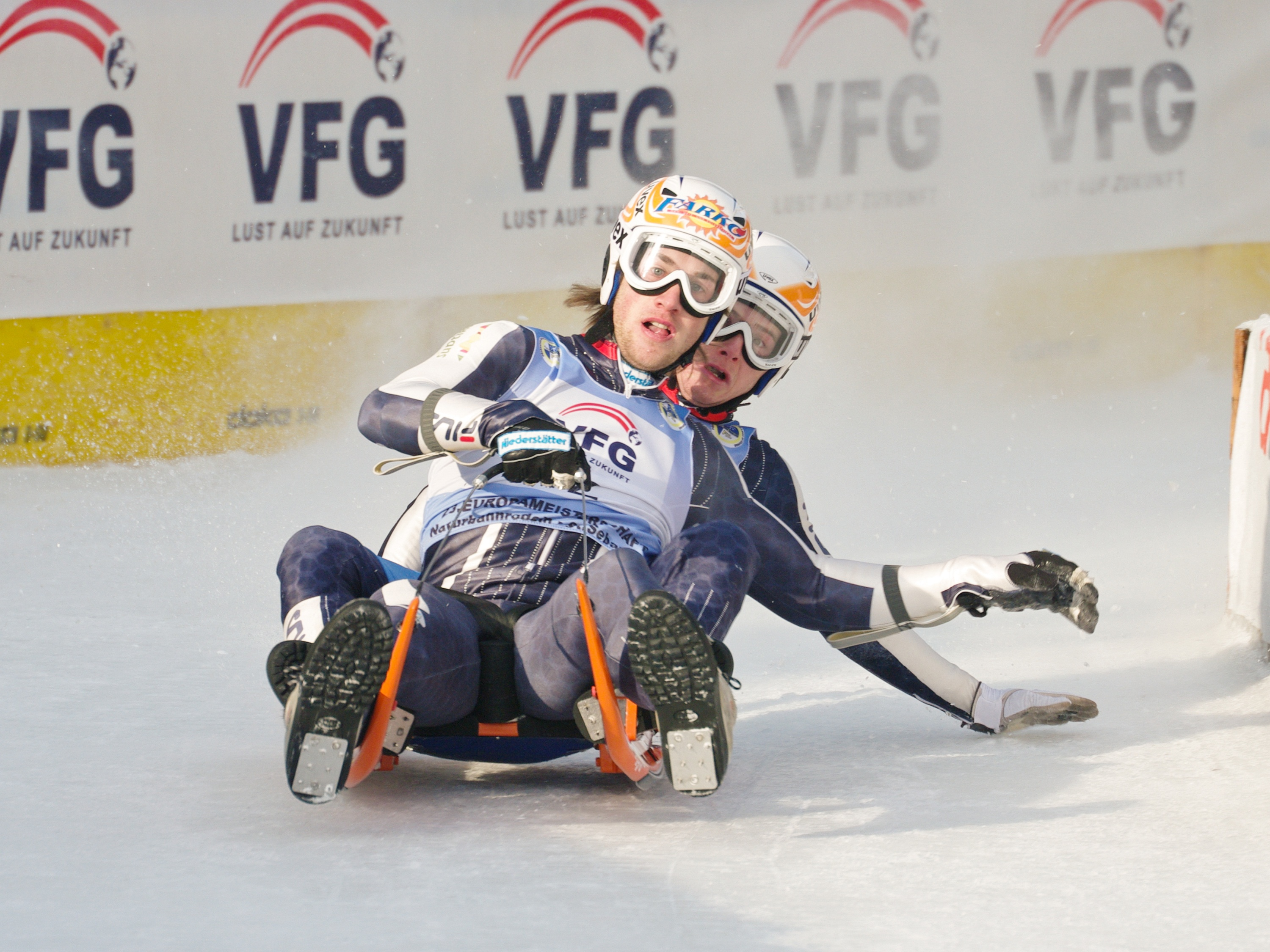 Italian natural track lugers Patrick Pigneter and Florian Clara at the FIL European Luge Natural Track Championships 2010 in St. Sebastian, Austria.